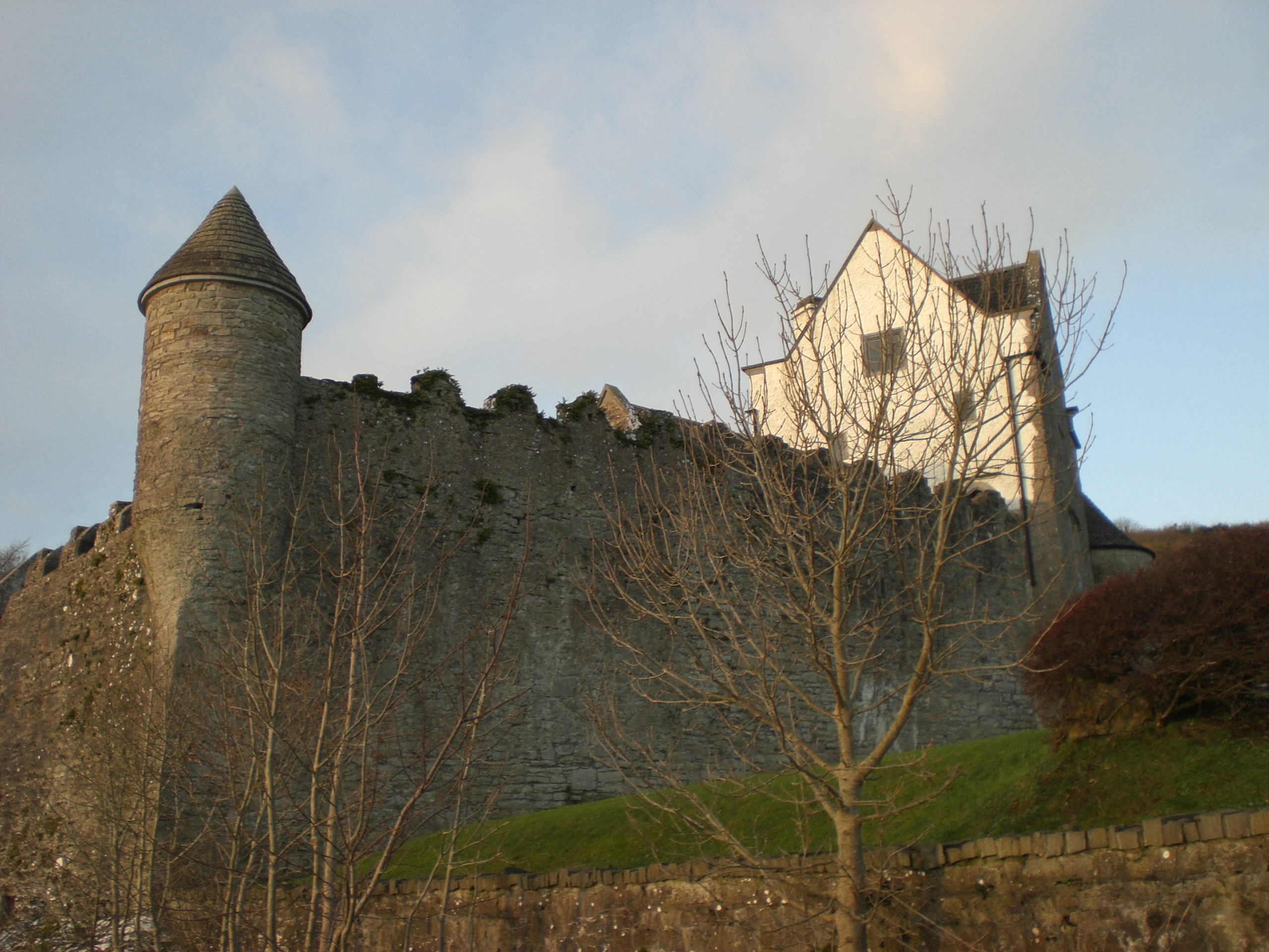 Taken by Sytheston from the lake shore close by Parkes Castle.